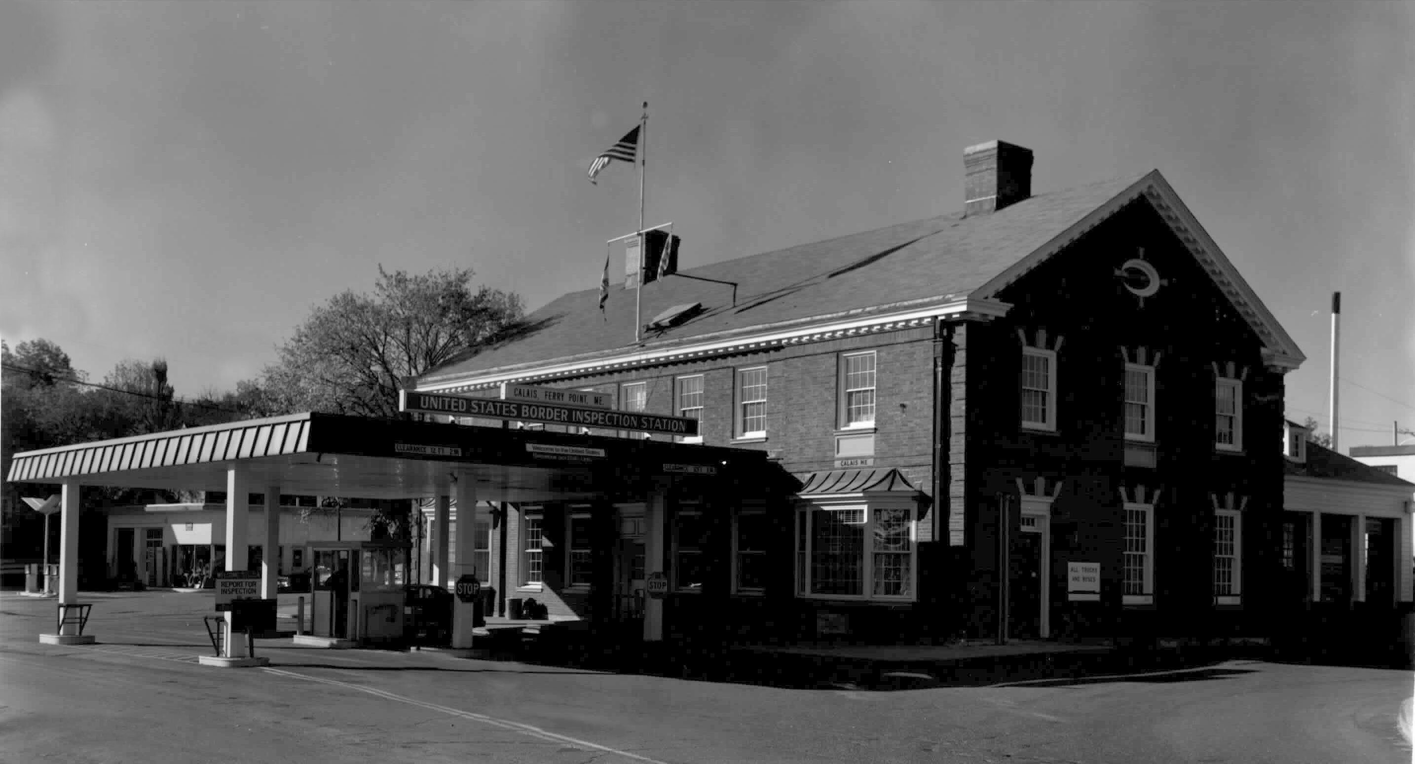 The US Border Inspection Station at the Ferry Point Bridge in Calais, Maine Other information Photo taken by GSA and posted on its web site